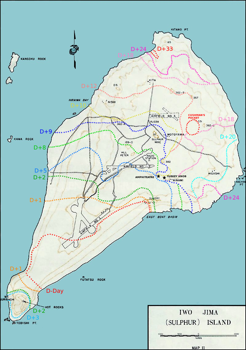 American fronts during the battle of Iwo Jima.